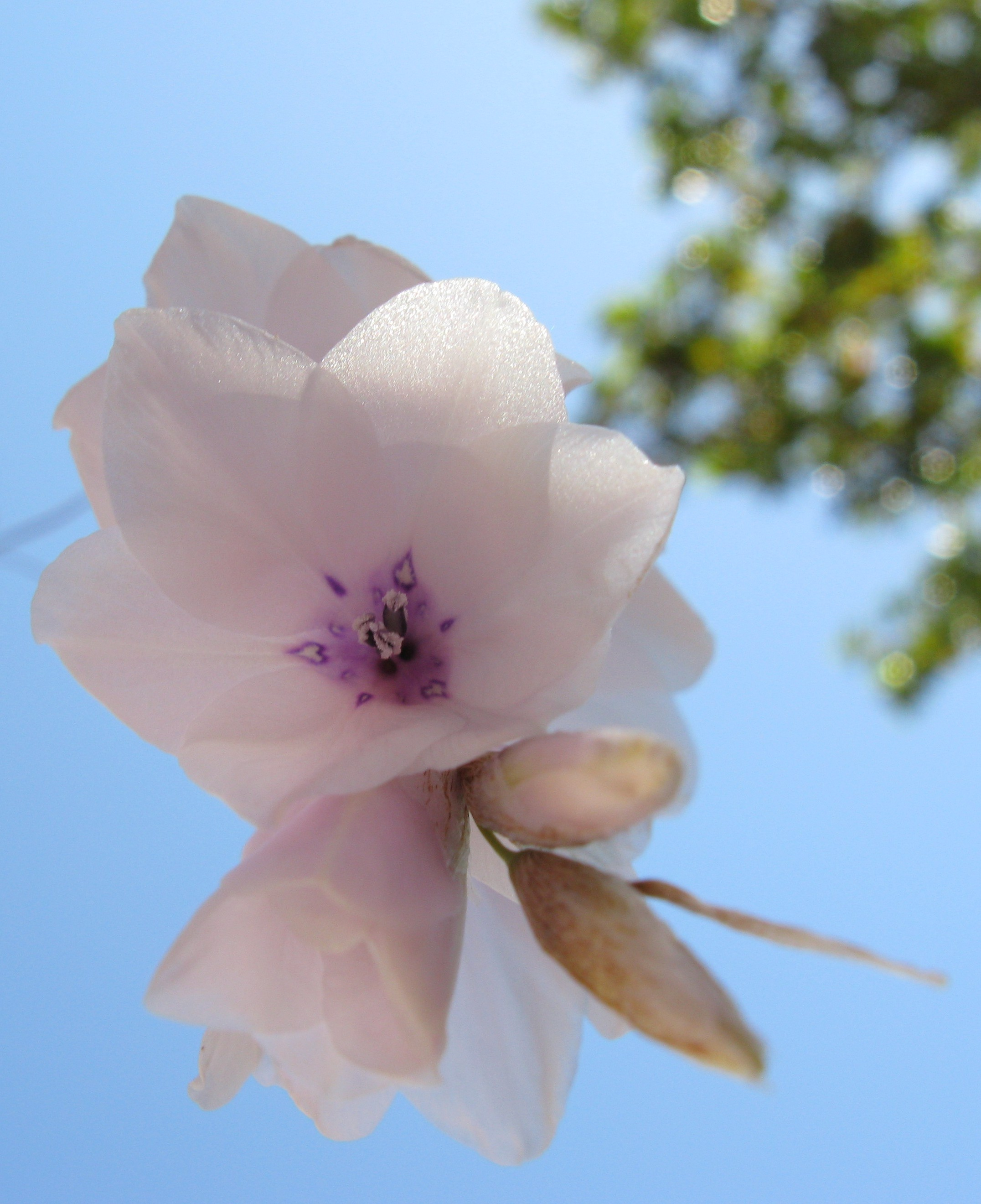 The hanging flowers gave rise to common names such as "Harebells" or "Hairbells"